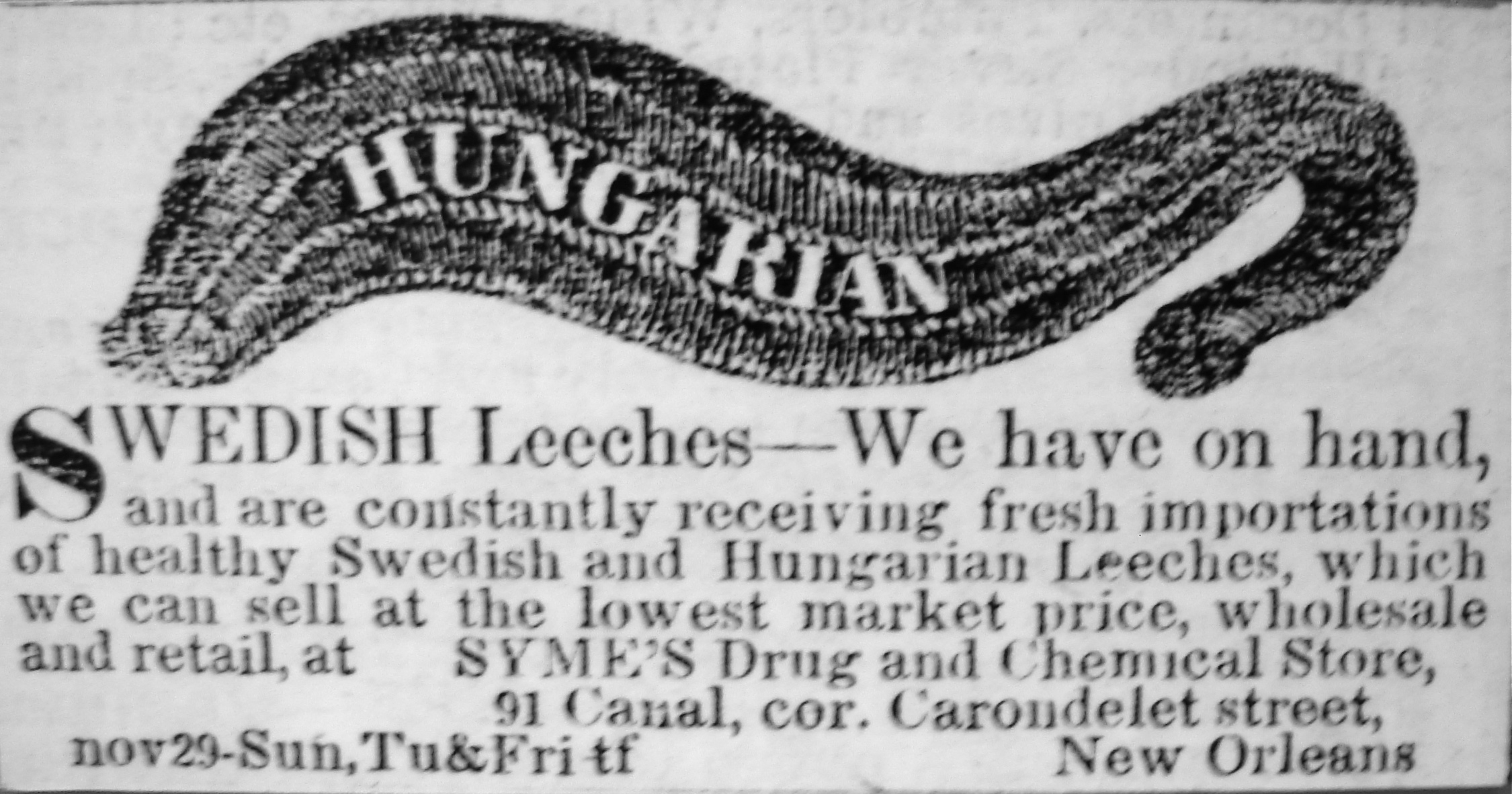 1852 advertisement for Hungarian and Swedish leeches, for Syme's Drug and Chemical Store, Canal at Carondelet, New Orleans. Printed in "the Daily Delta", 9 January, 1852. Reproduced at display in Cabildo Museum.